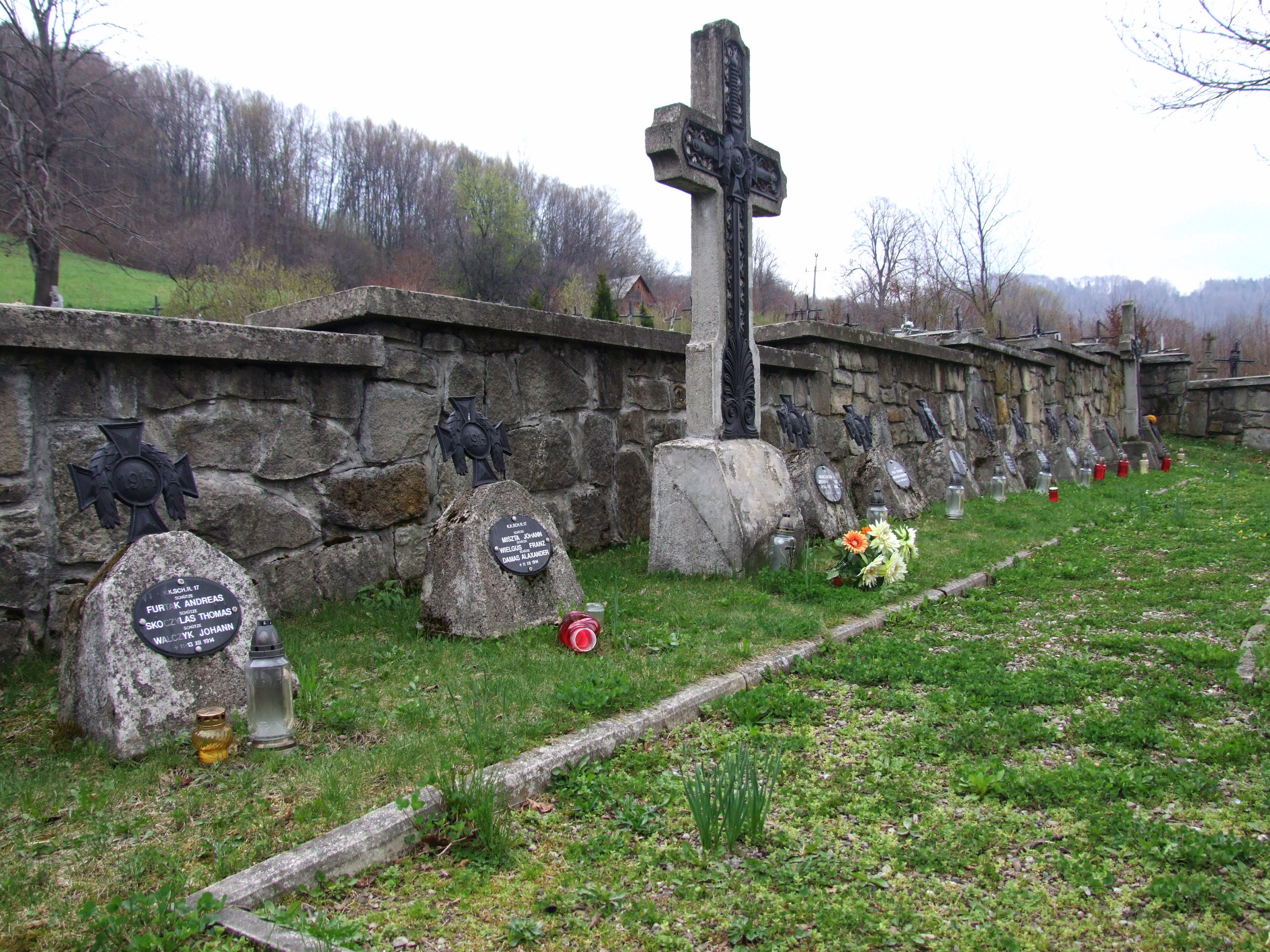 World War I Cemetery nr 358 in Laskowa